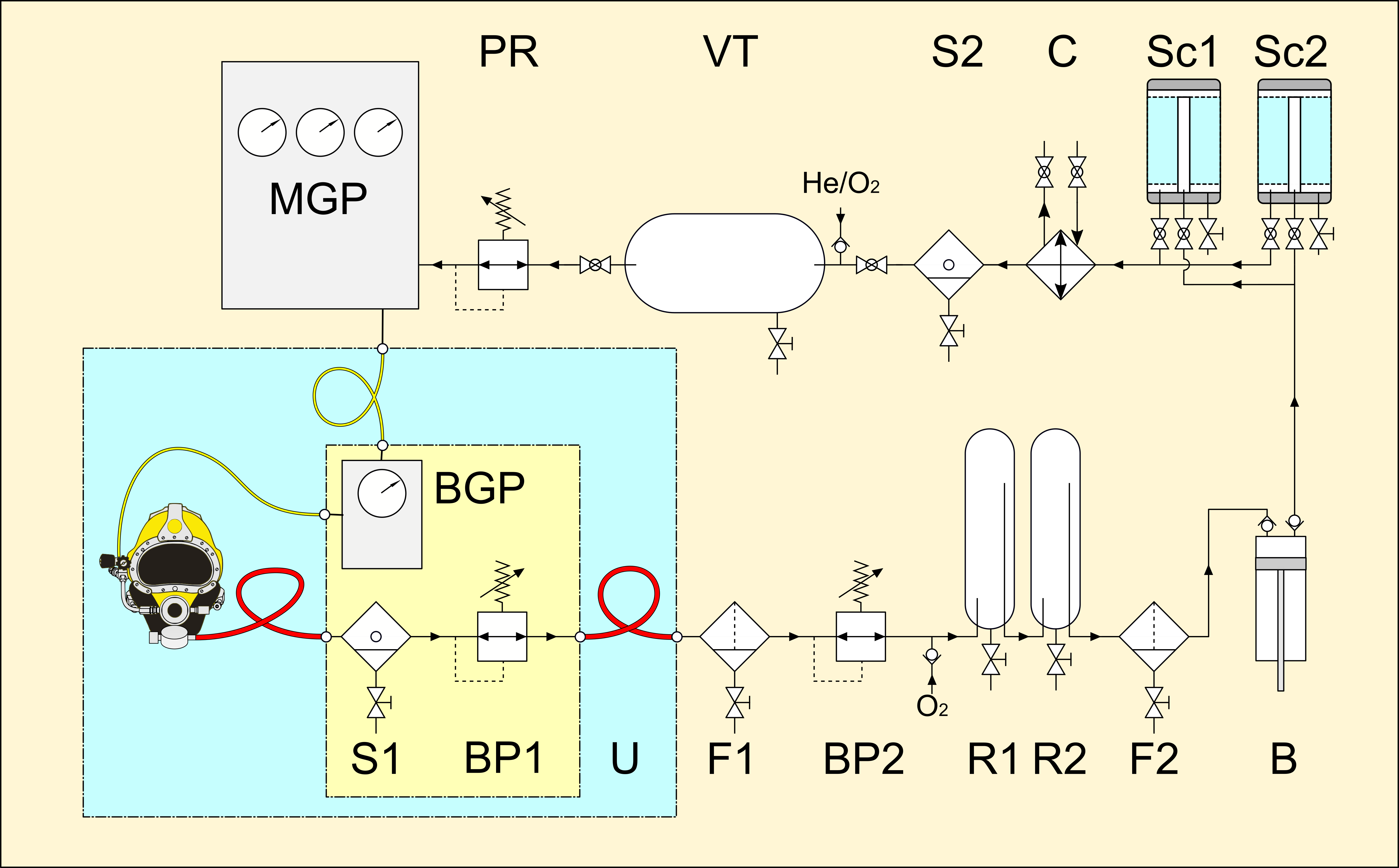 Schematic diagram of heliox diving gas reclaim system, showing diver helmet, bell and surface components BGP: bell gas panelS1: first water separatorBP1: bell back-pressure regulatorU: bell umbilicalF1: first gas filterBP2: topside back-pressure regulatorR1, R2: serial gas receiversF2: second gas filterB: booster pumpSc1, Sc2: parallel scrubbersC: gas coolerS2: last water separatorVT: volume tankPR: pressure regulatorMGP: main gas panel